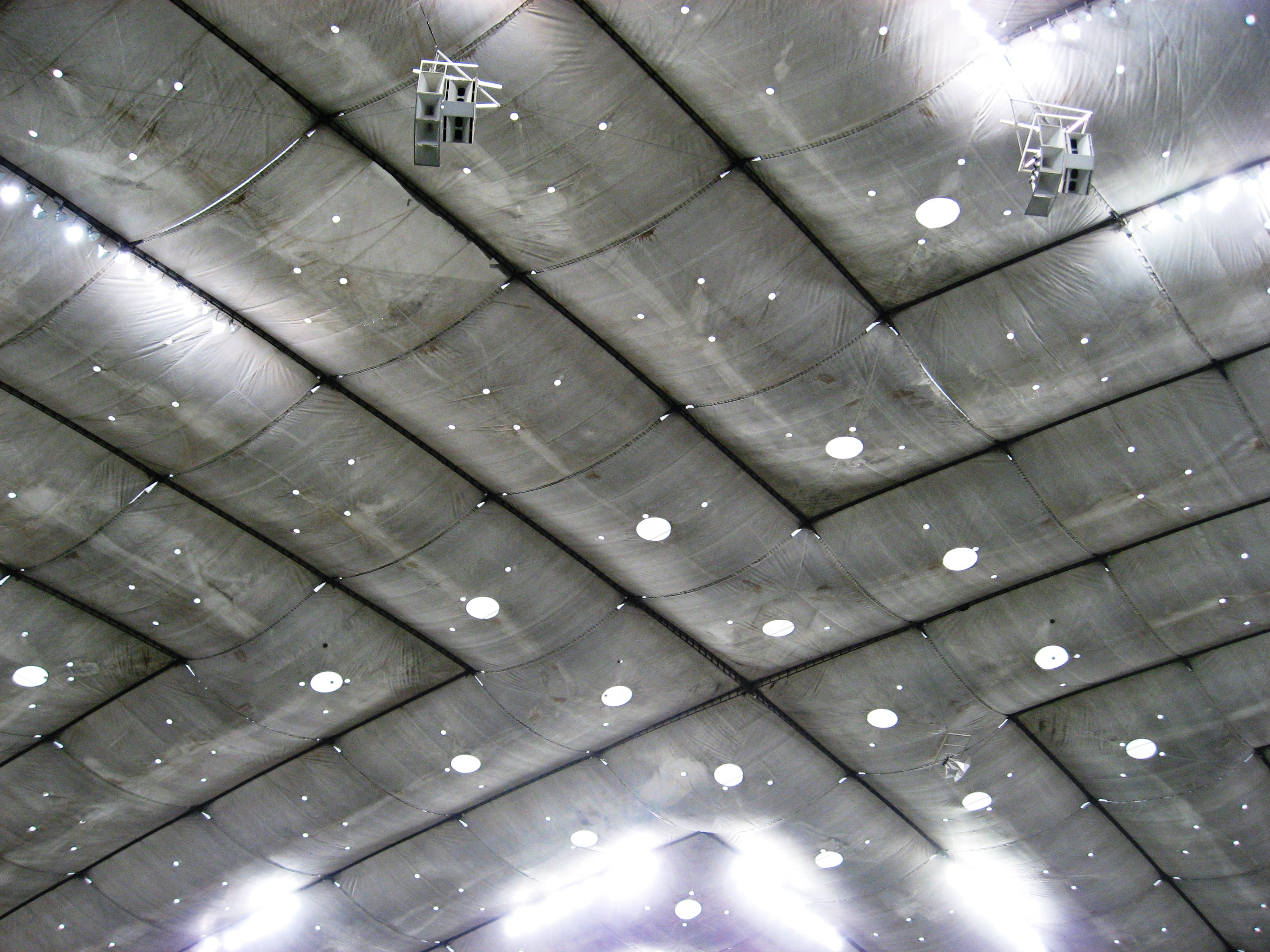 BC Lions vs Edmonton Eskimos @ the BC Place